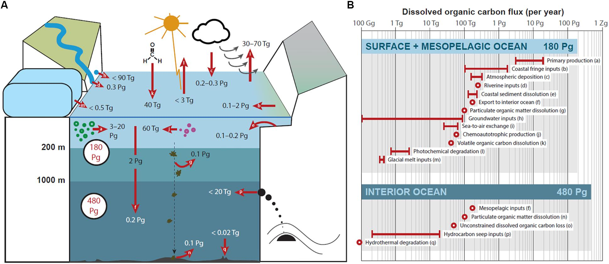 Dissolved organic carbon (DOC) fluxes in the surface, mesopelagic, and interior ocean. In panel (A) oceanic DOC stocks are shown in black circles with red font and units are Pg-C. DOC fluxes are shown in black and white font and units are either Tg-C yr–1 or Pg-C yr–1. Letters in arrows and associated flux values correspond to descriptions displayed in (B), which lists sources and sinks of oceanic DOC described in the section called “Current Understanding of Marine DOM” in the following article: Wagner, S., Schubotz, F., Kaiser, K., Hallmann, C., Waska, H., Rossel, P.E., Hansman, R., Elvert, M., Middelburg, J.J., Engel, A. and Blattmann, T.M.(2020) "Soothsaying DOM: A current perspective on the future of oceanic dissolved organic carbon". Frontiers in Marine Science, 7:341.